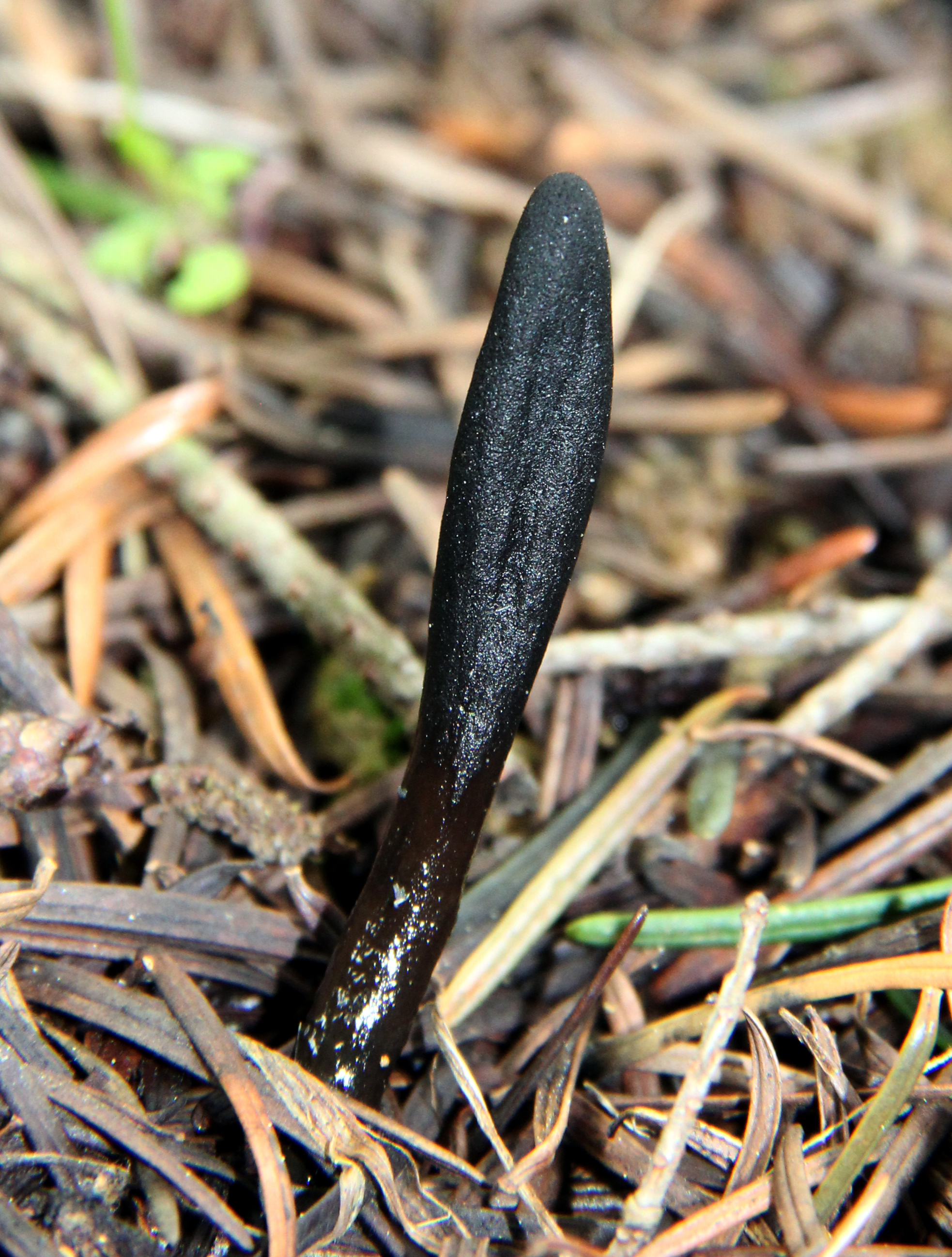 A fruit body of the ascomycete fungus Glutinoglossum glutinosum (Pers.) Hustad, A.N.Mill., Dentinger & P.F.Cannon (formerly Geoglossum glutinosum Pers.). Specimen photographed in Redwood Regional Park, Oakland, California, USA (37.809° -122.143°).